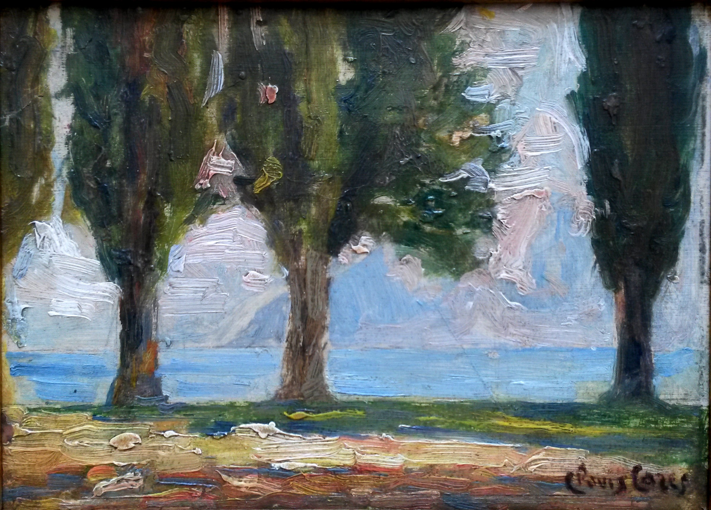 Cyprès by Clovis Cazes